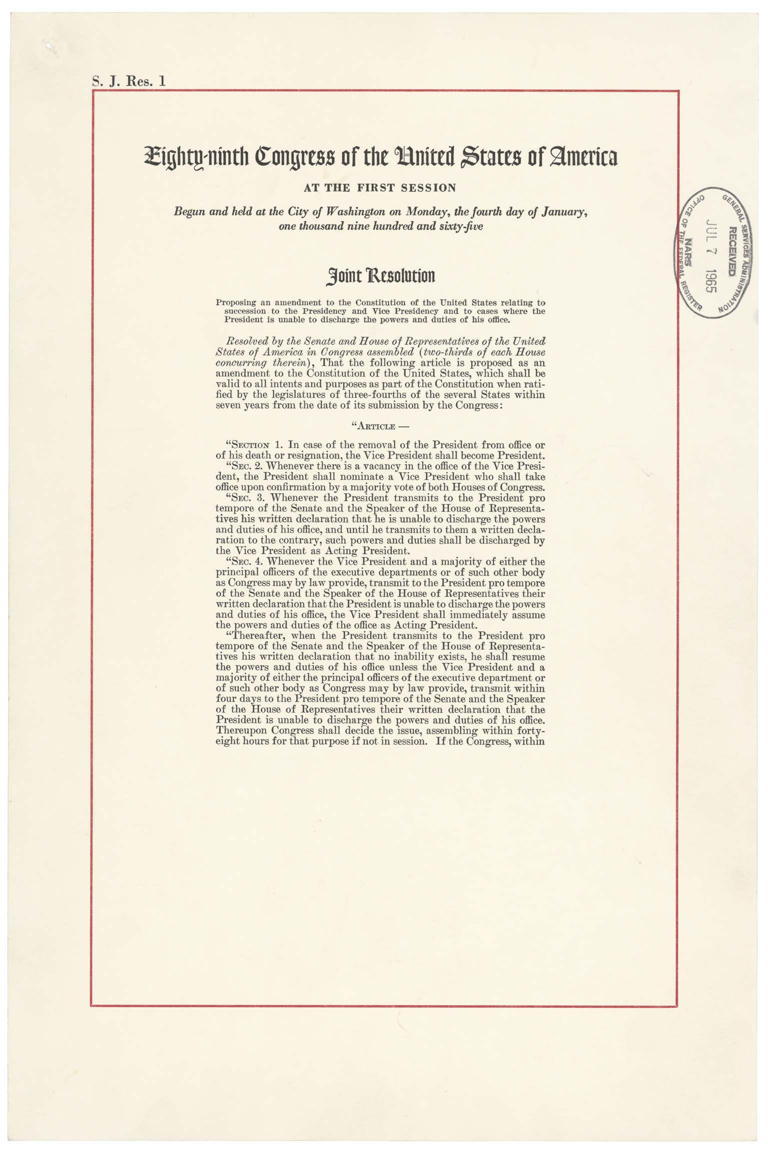 Joint Resolution Proposing the Twenty-fifth Amendment to the United States Constitution, page 1